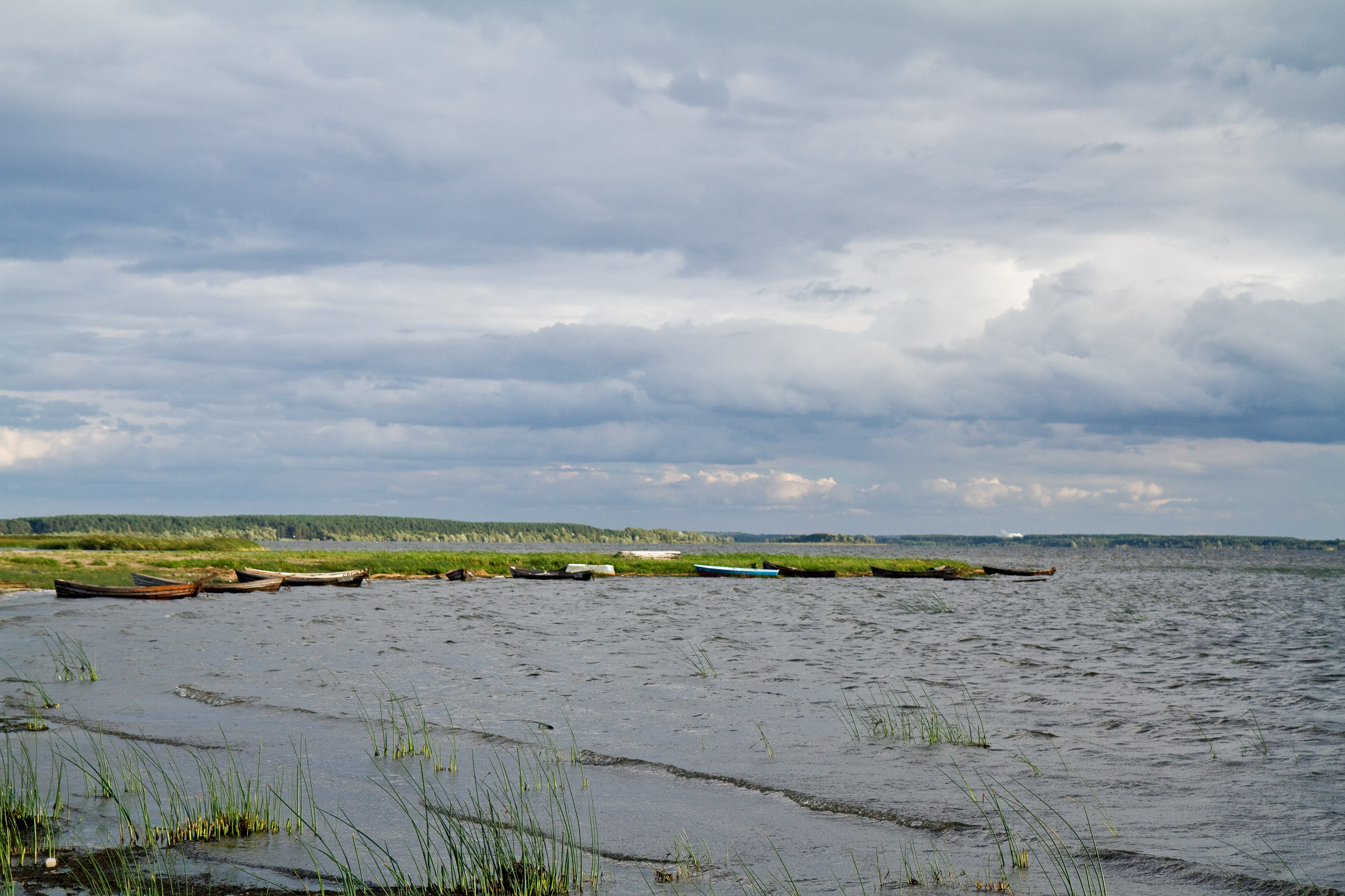 Dryviaty Lake. Brasłau district, Viciebsk province, Belarus.